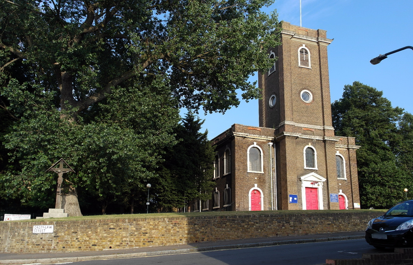 View from the northwest of the 18th-century parish church of St Mary Magdalene, Woolwich, South East London. The crucifix was originally part of the church interior.